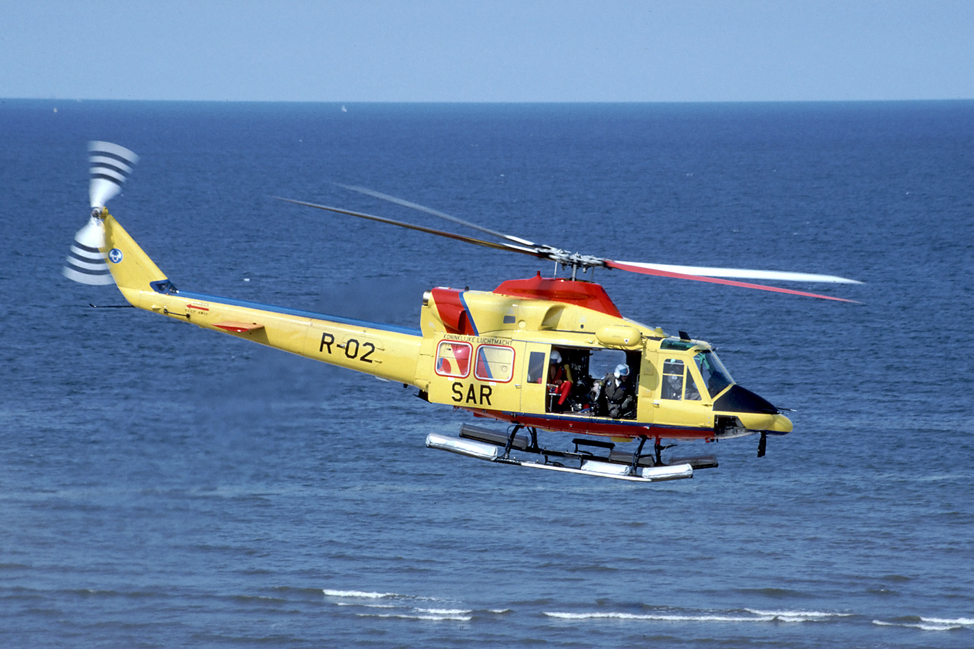 A Dutch Air Force AB412 during a SAR-demonstration in Katwijk. August 1994. All three Agusta Bells have left the airforce and were sold to Peru.